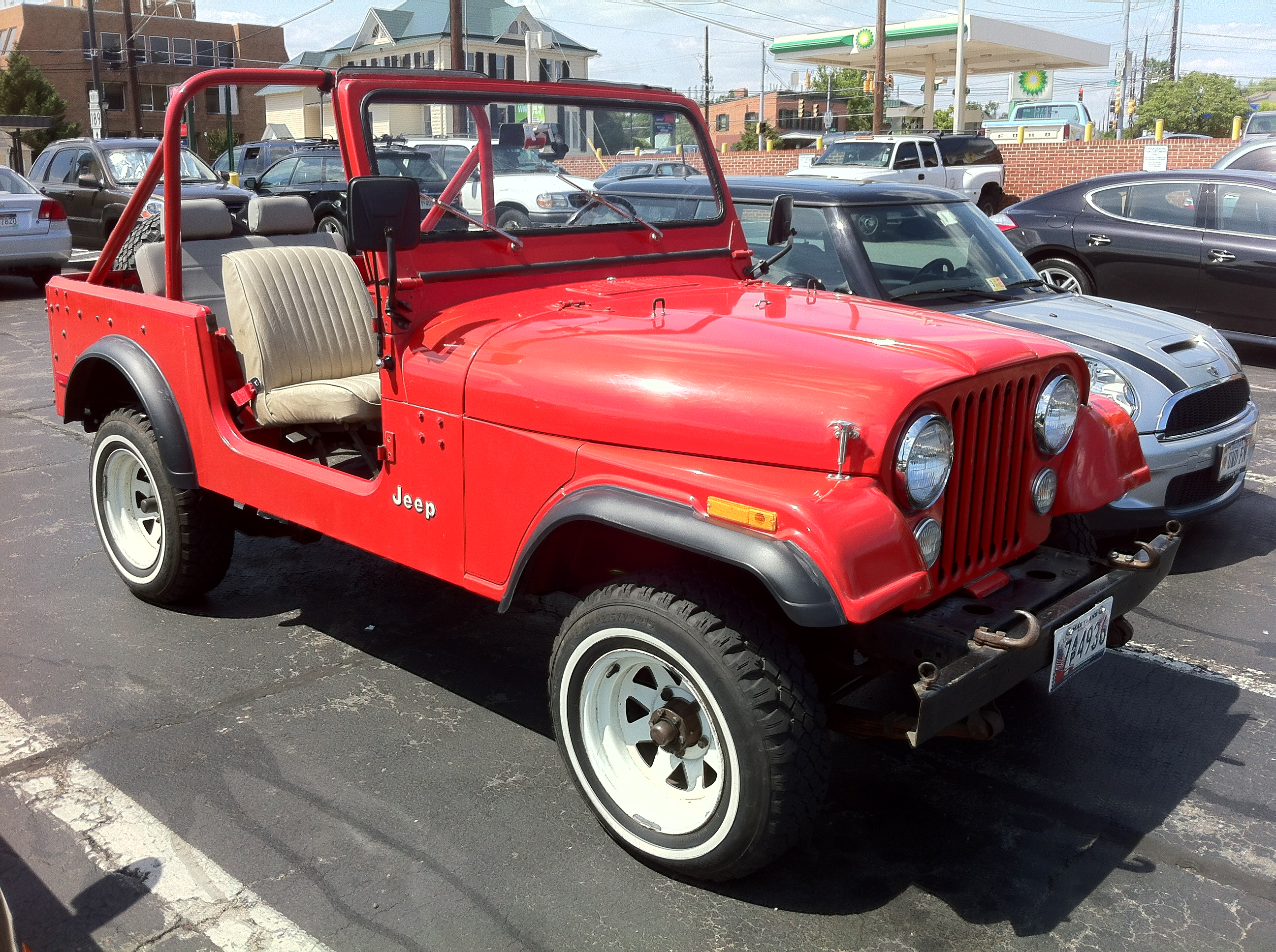 Jeep CJ-7 finished in red, open body with no top. Mostly original vehicle - aftermarket rear seat, but not much customization or extra accessories and components. Front right side view. Photographed in the Village of Potomac, Maryland, USA.